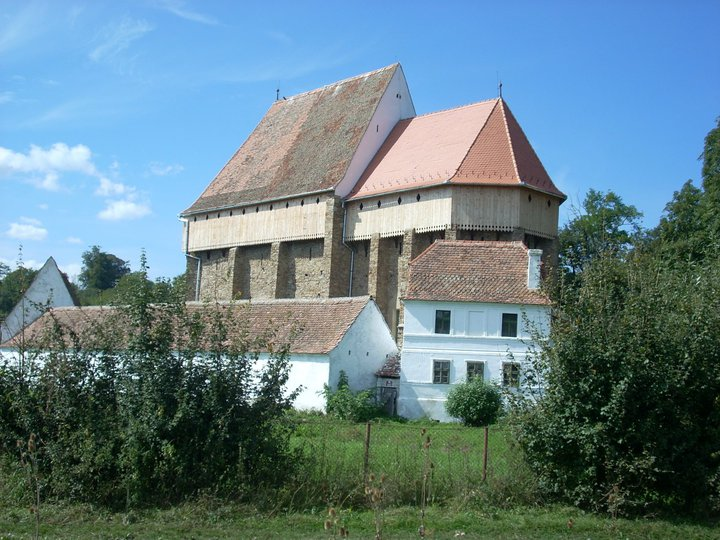 Biserica Evanghelica din Bradeni (Henndorf), jud.Sibiu